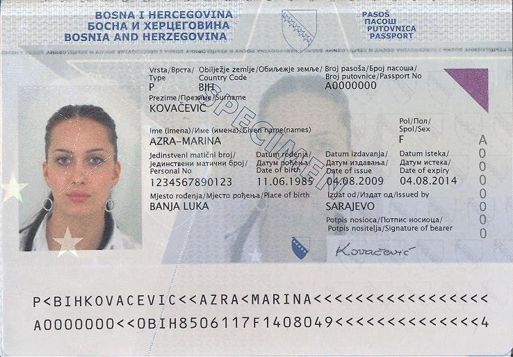 front page